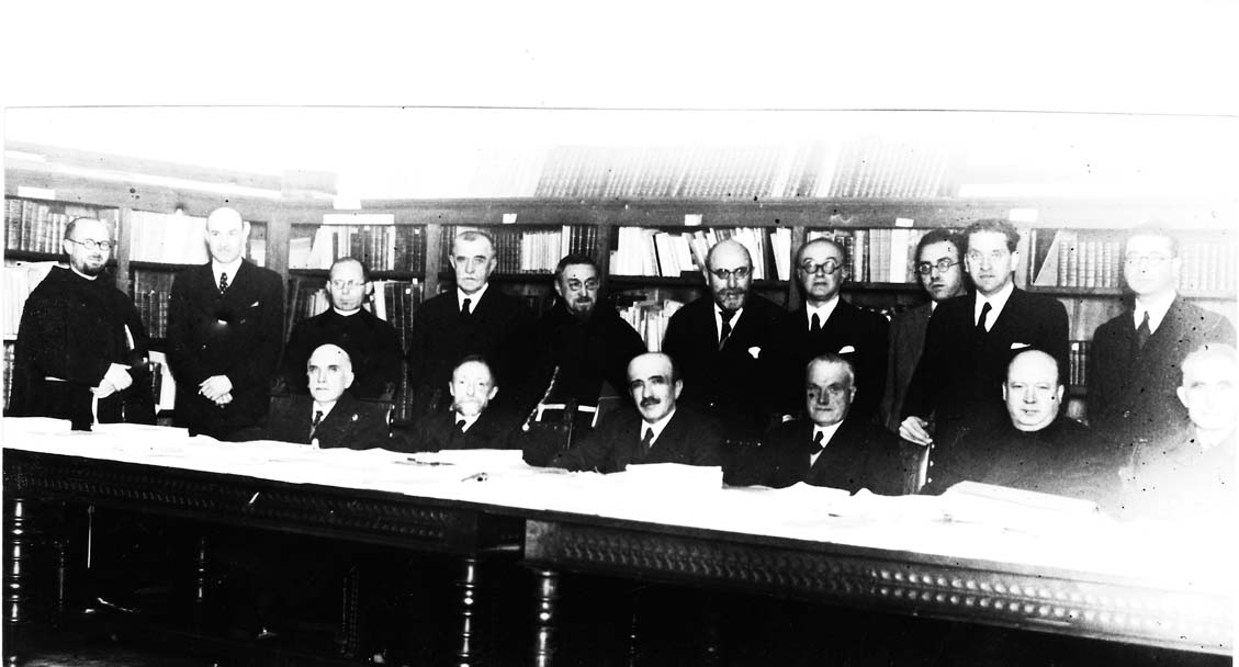 Eusko Ikaskuntza - Basque Studies Society, 1935